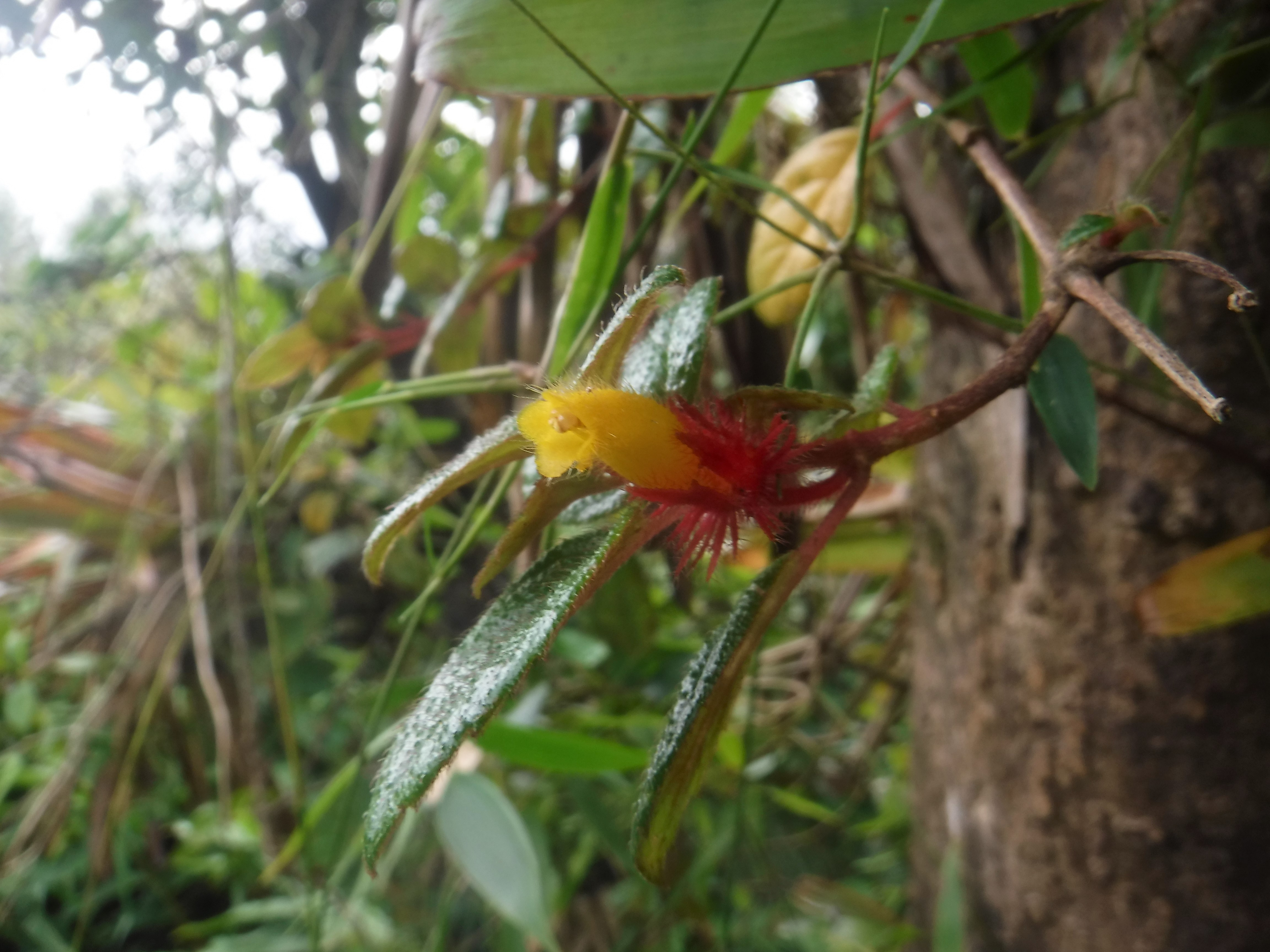 Columnea domingensis in the wild.